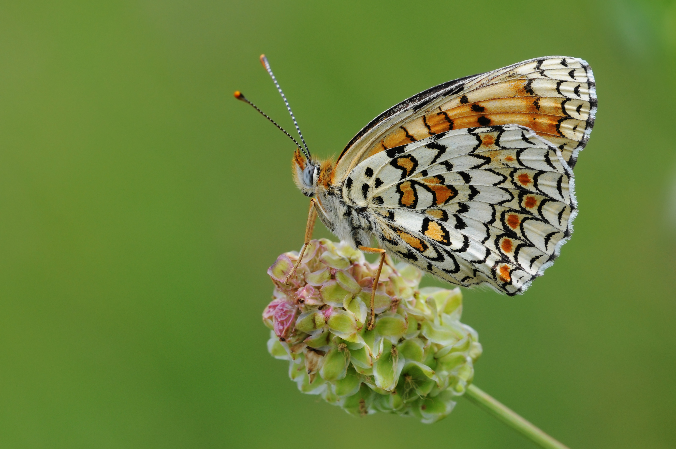 Wing underside view of Knapweed Fritillary (Melitaea phoebe). Eskipolat, Erzurum - Turkey.